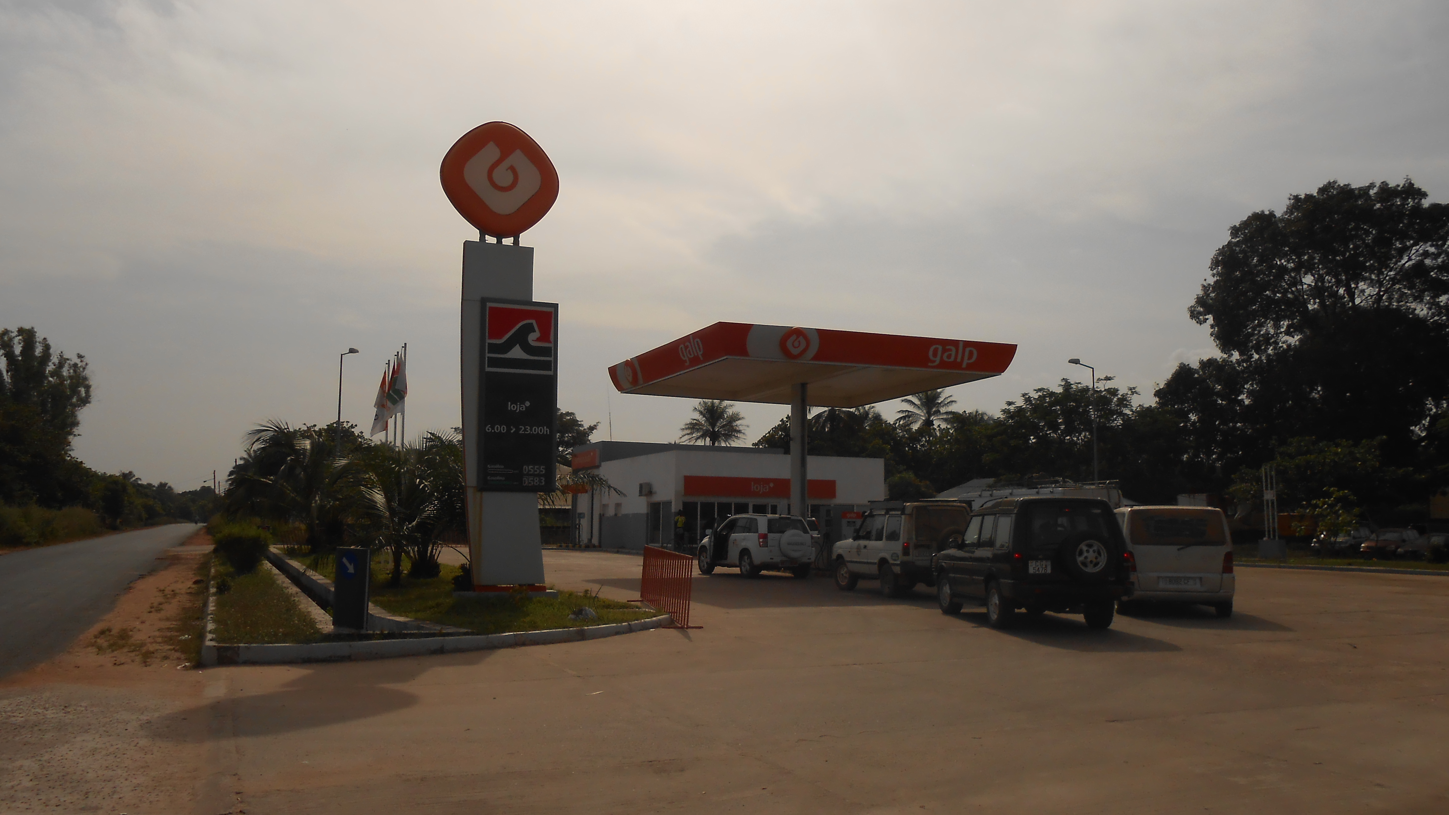 Petrol station of the portuguese Galp company near São Domingos in the Cacheu region in northern Guinea-Bissau.